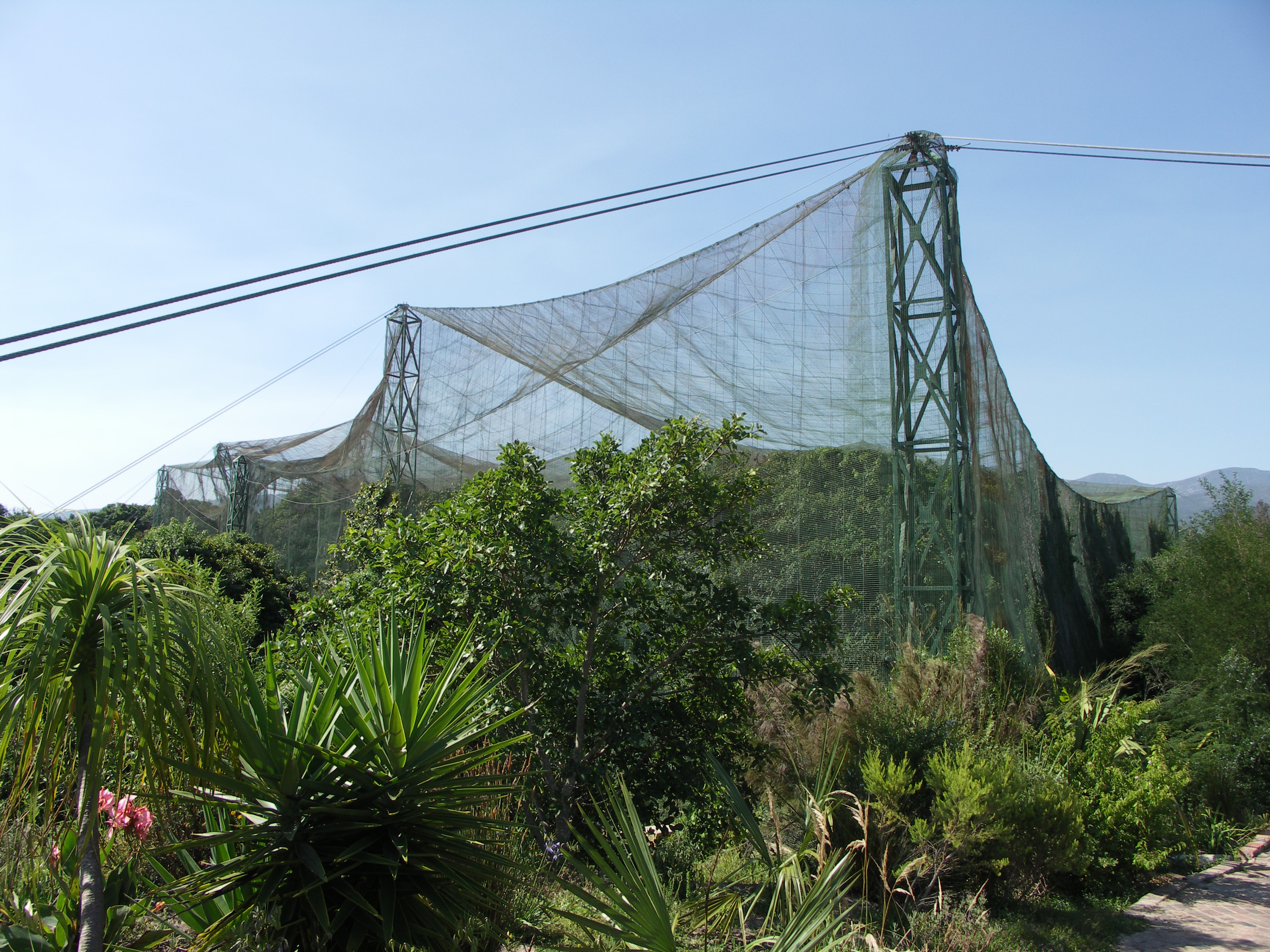 Portion of the Birds of Eden Aviary seen from outside. Western Cape, South Africa